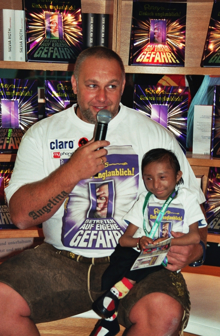 The „shortest man in the world“, Khagendra Thapa Magar, and the „strongest man in the world“, Franz Müllner, at the Frankfurt Book Fair (Frankfurter Buchmesse) 2011 in Frankfurt am Main, Hesse, Germany. They promoted the book Ripley's Einfach unglaublich!, the German edition of Ripley's Believe It or Not!